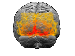 Brodmann areas 17, 18 and 19. BA 17 is shown in red. BA 18 is orange. BA 19 is yellow. This is a rear view of the brain. Much of BA 17 is hidden from view on the medial surface (between the hemispheres), on the ventral bank of the calcarine sulcus (check this last point). The brain's surface is extracted from structural MRI data (Wellcome Dept. Imaging Neuroscience, UCL, UK). The Brodmann Area data is based on information from the online Talairach demon (an electronic version of Talairach and Tournoux, 1988).